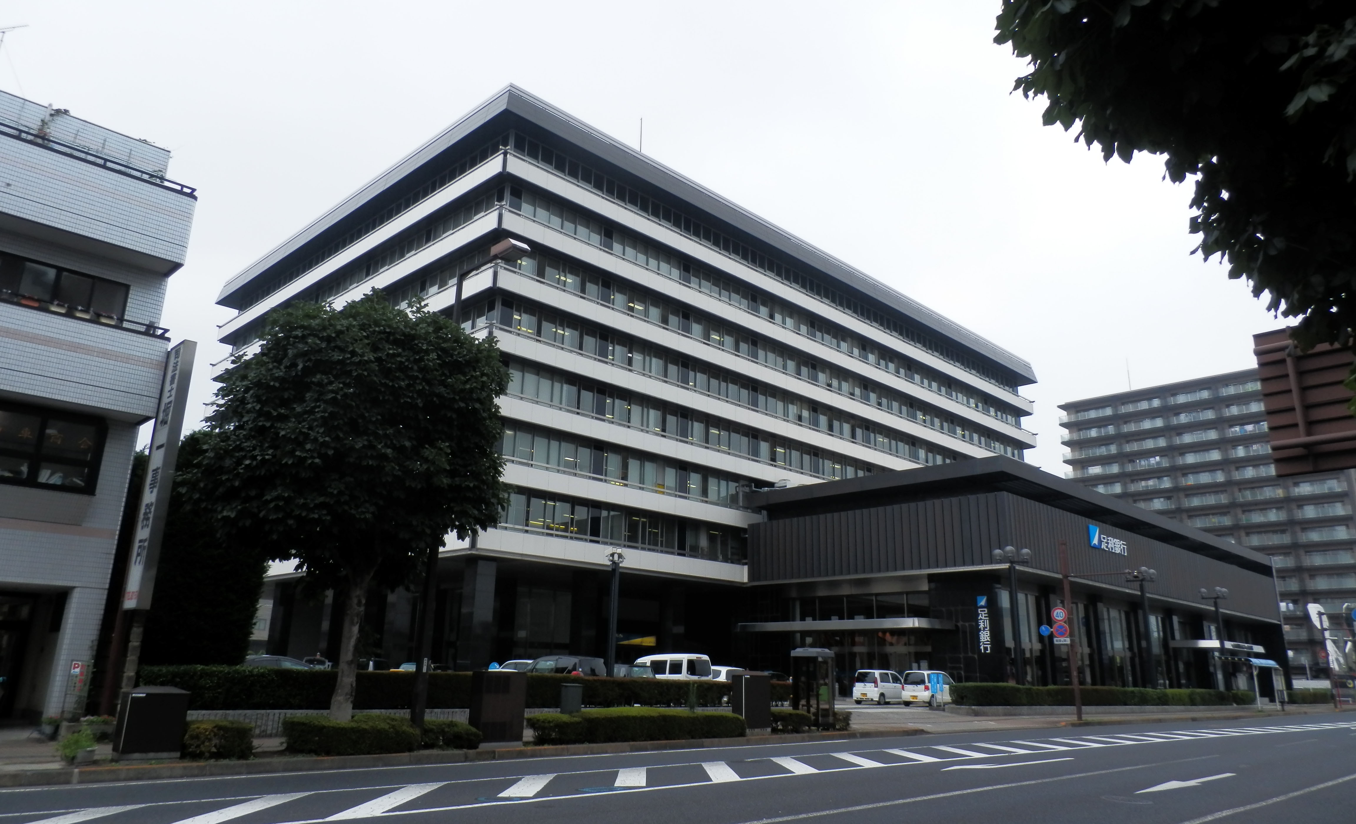 Ashikaga Bank Headquarters (Utsunomiya, Japan)